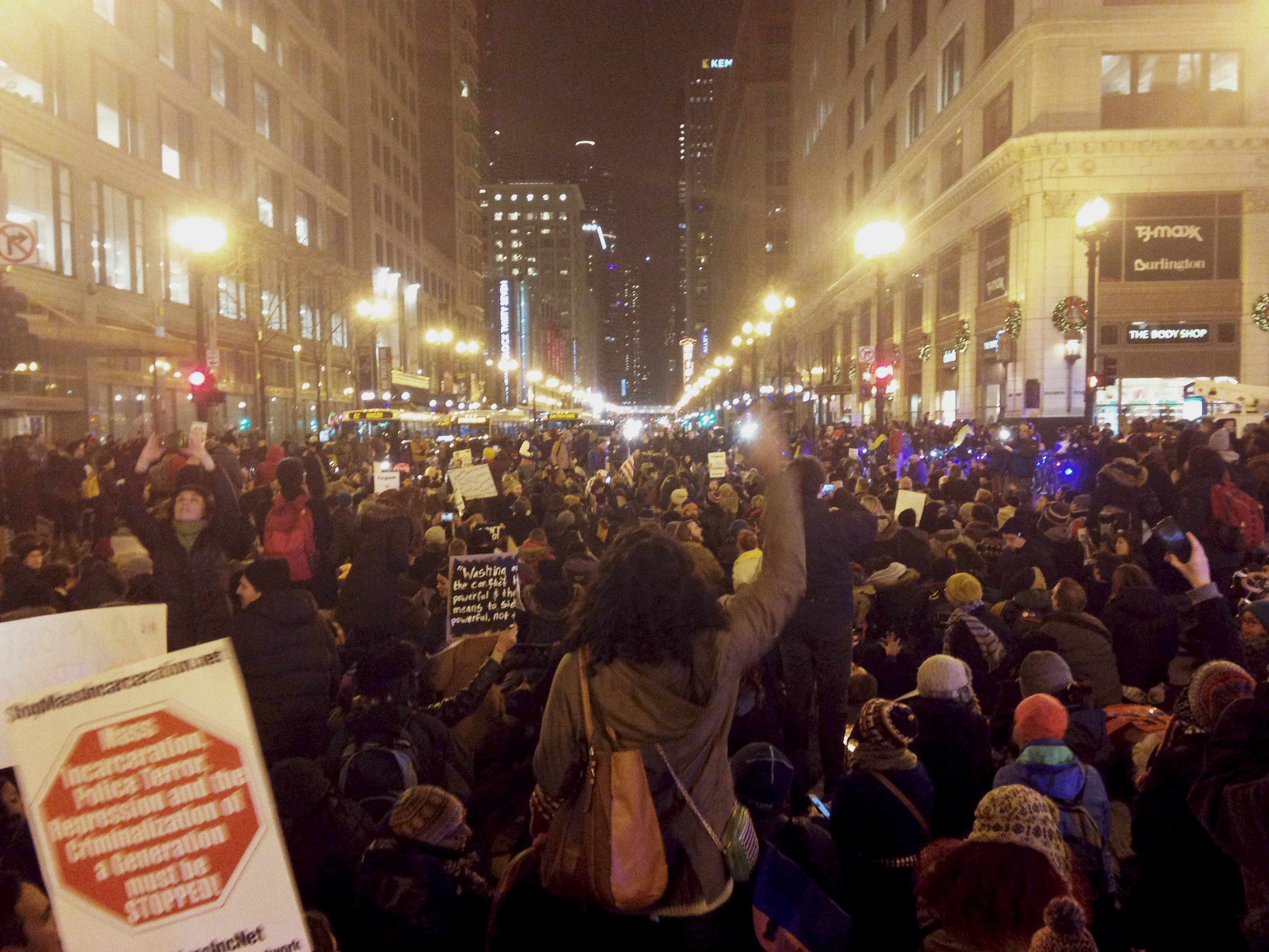 Image from protest on December 4th, 2014: Chicago protests after no indictment in Eric Garner chokehold death.